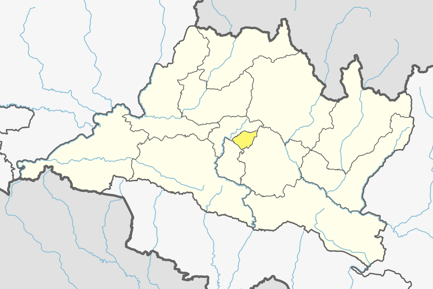 A district of Bagmati Pradesh